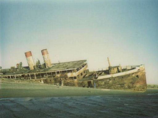 Wreck of the SS Catala at Ocean Shores, WA. Wrecked in a storm 1965, picture taken in 1976.